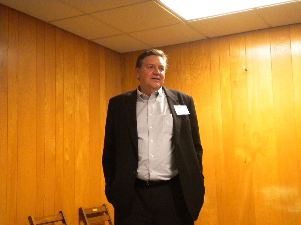 Dr. Dan Benishek, candidate for the U.S. House of Representatives from Michigan's First District, speaks at a reception at the Republican Party headquarters in Bay County.